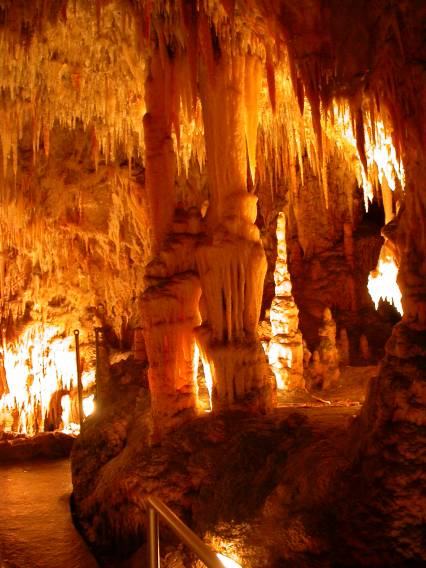 A cave at Yarrangobilly Caves. I took this photo, and it may well have been in the Jersey cave although I don't recall exactly which of the caves it was.